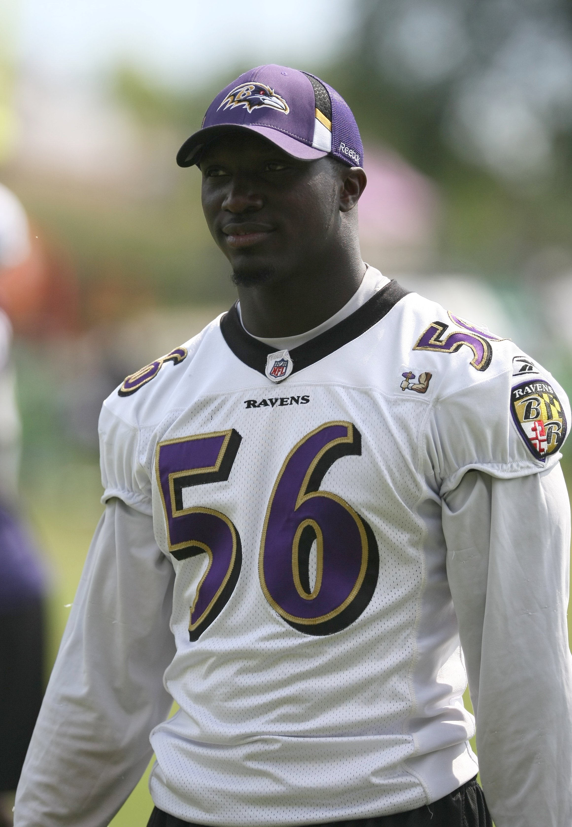 Baltimore Ravens Training Camp August 6, 2009